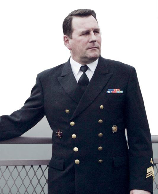 Chief Warrant Officer Jari Kilpilä, Finnish Navy. The rank insignia includes the machine branch symbol, propeller. On the left side, Kilpilä carries the course badge of the NCO school. On the right side, he carries the unit cross of Pioneerirykmentti (Engineer Regiment) which is an army unit. The different vertical positions of the two crosses are consistent with regulations. The unit cross is worn lower than the course badge.